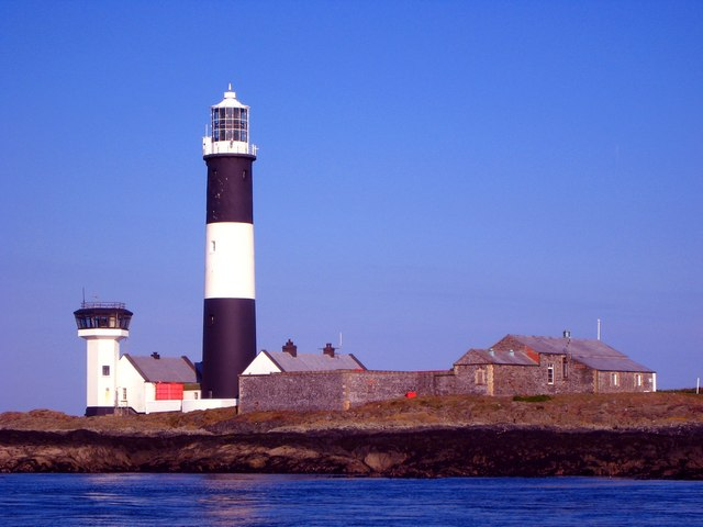 Mew Island Lighthouse Mew Island Lighthouse, part of the Copeland Islands. The present lighthouse and fog signal on Mew Island was established on 1st November 1884 and its predecessor on nearby Lighthouse Island was discontinued.